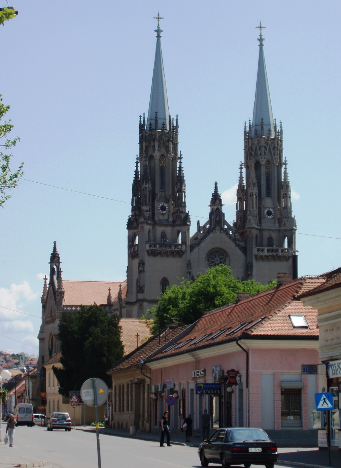 Saint Gerhard the Bishop and Martyr Roman Catholic Church in Vršac, Vojvodina, Serbia.